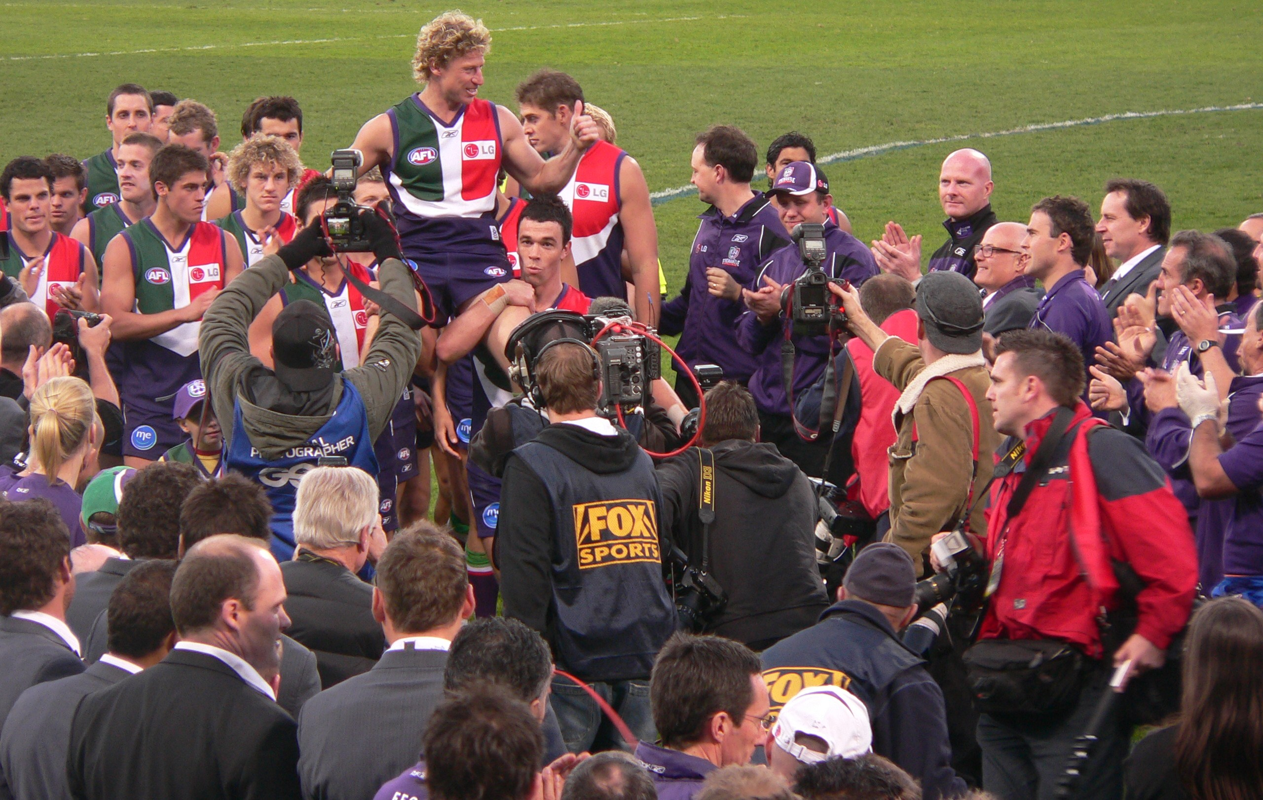 Shaun McManus is chaired from Subiaco Oval after his final match of Australian rules football for the Fremantle Football Club